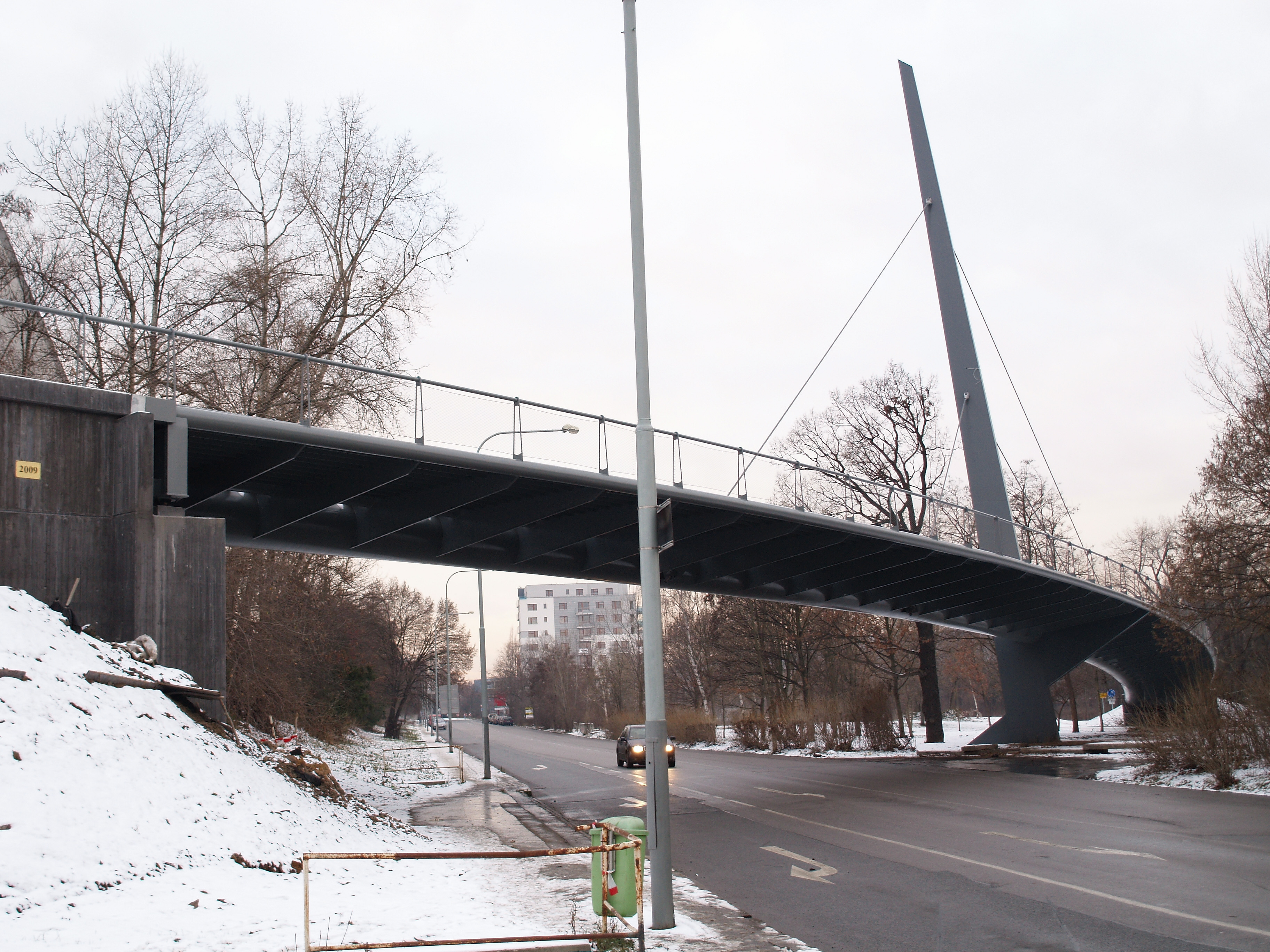 Bikeway bridge over Ocelářská street in Prague, suspended steel structure